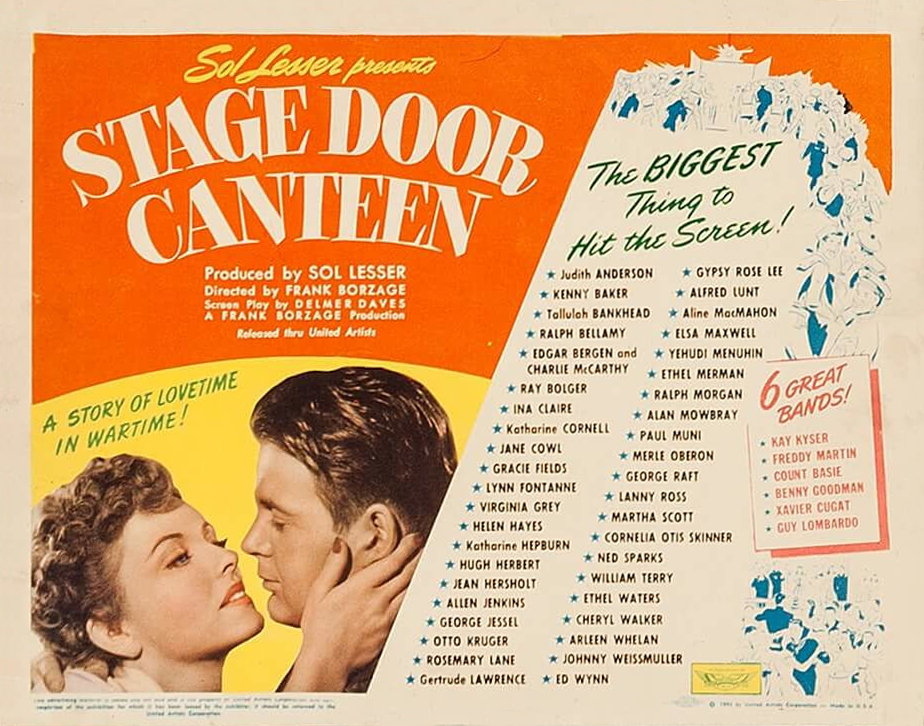 Lobby card for the 1943 film, Stage Door Canteen